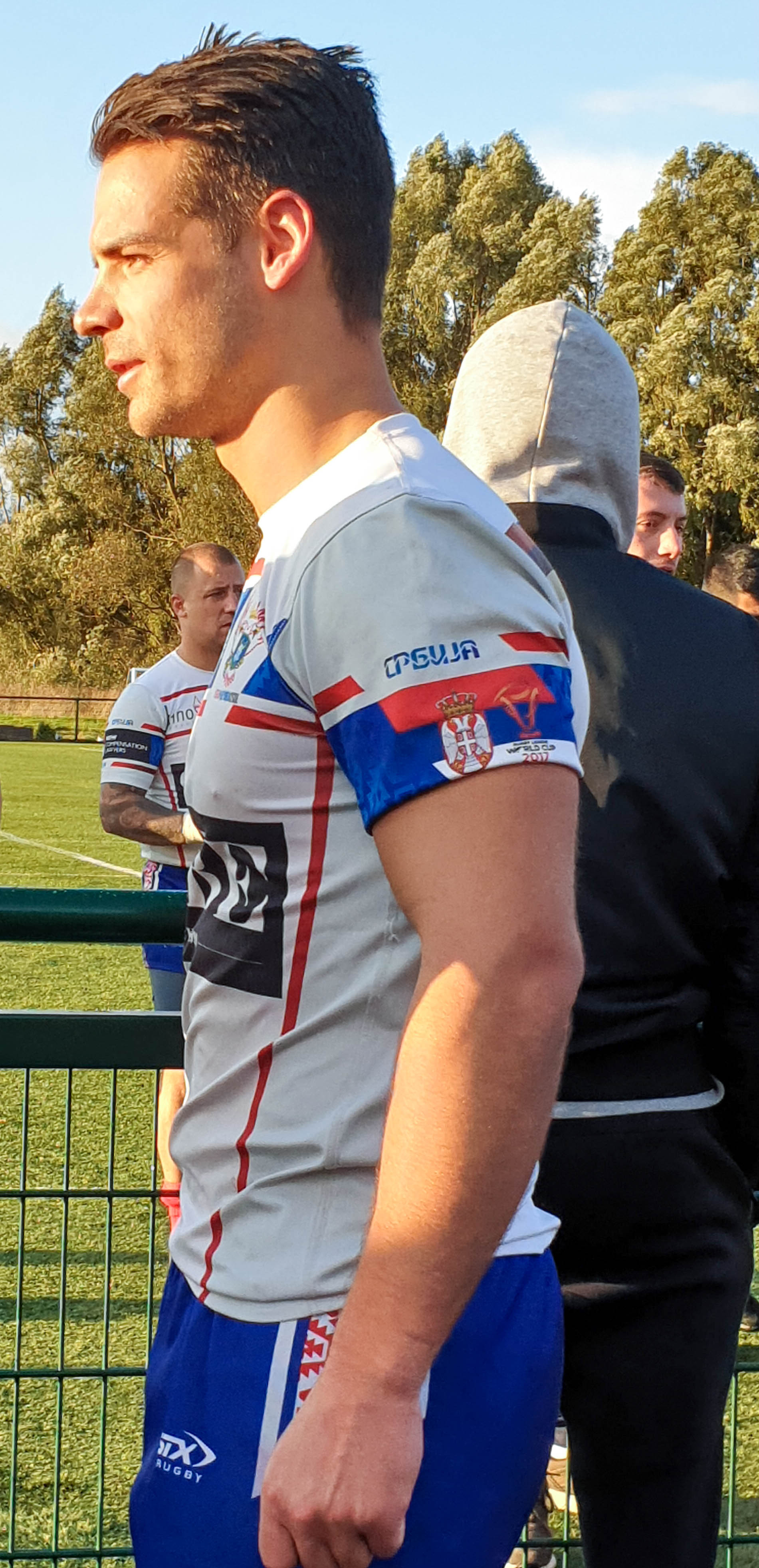 Serbian international rugby league player, Jason Muranka, pictured after a match against Scotland on 26 October 2019